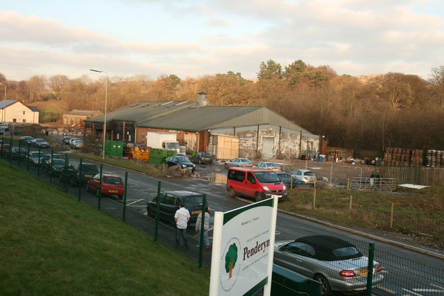 The Penderyn whisky distillery is located in the village of Penderyn, Rhondda Cynon Taf, Wales.